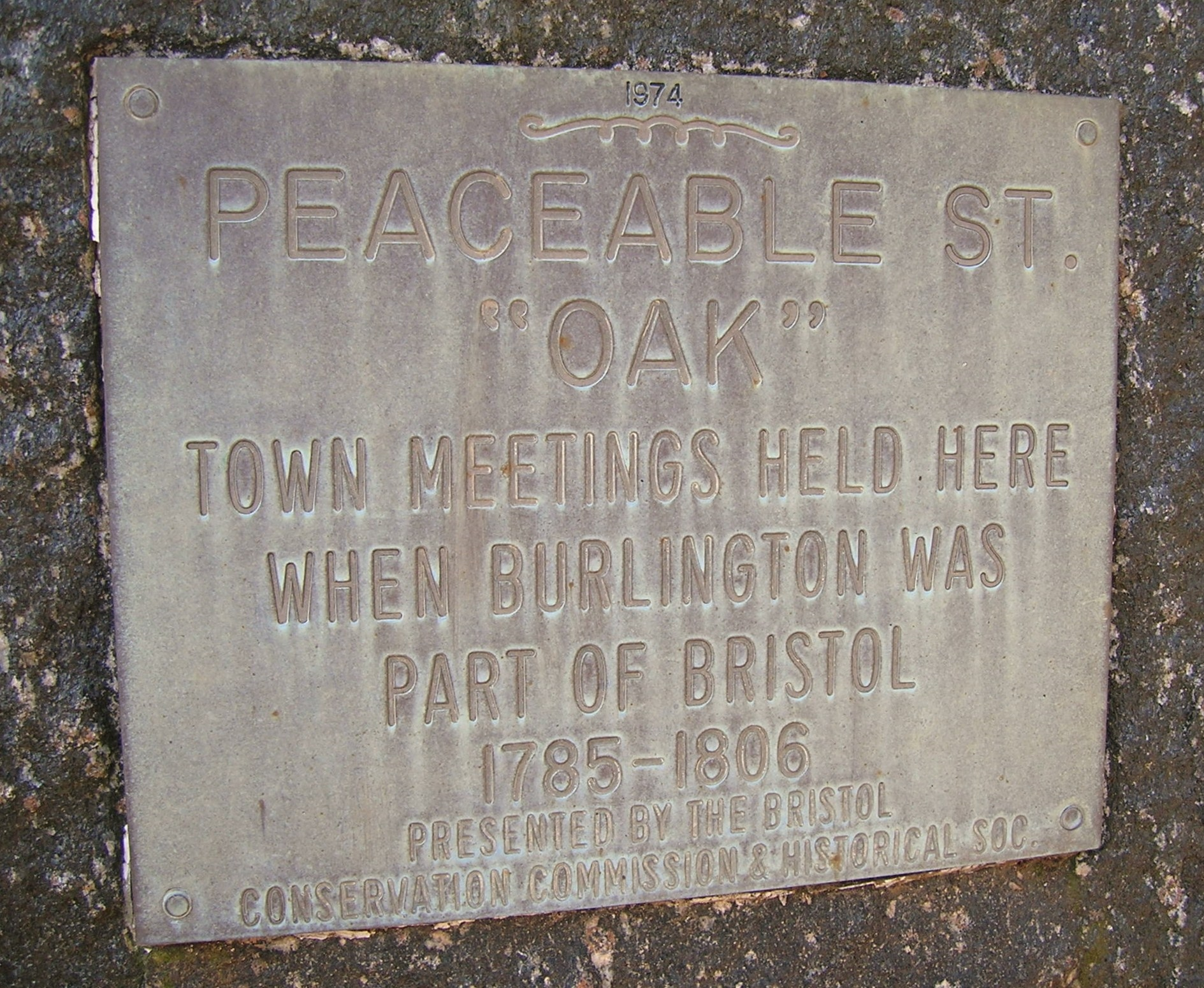 Photo of plaque marking the Peaceable Oak, a white oak tree located in Bristol, Connecticut. Photo taken March 11, 2012.